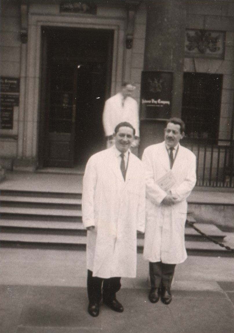 One of the photographs taken around or relating to the fur trade center Niddastrasse, Frankfurt am Main, Germany.